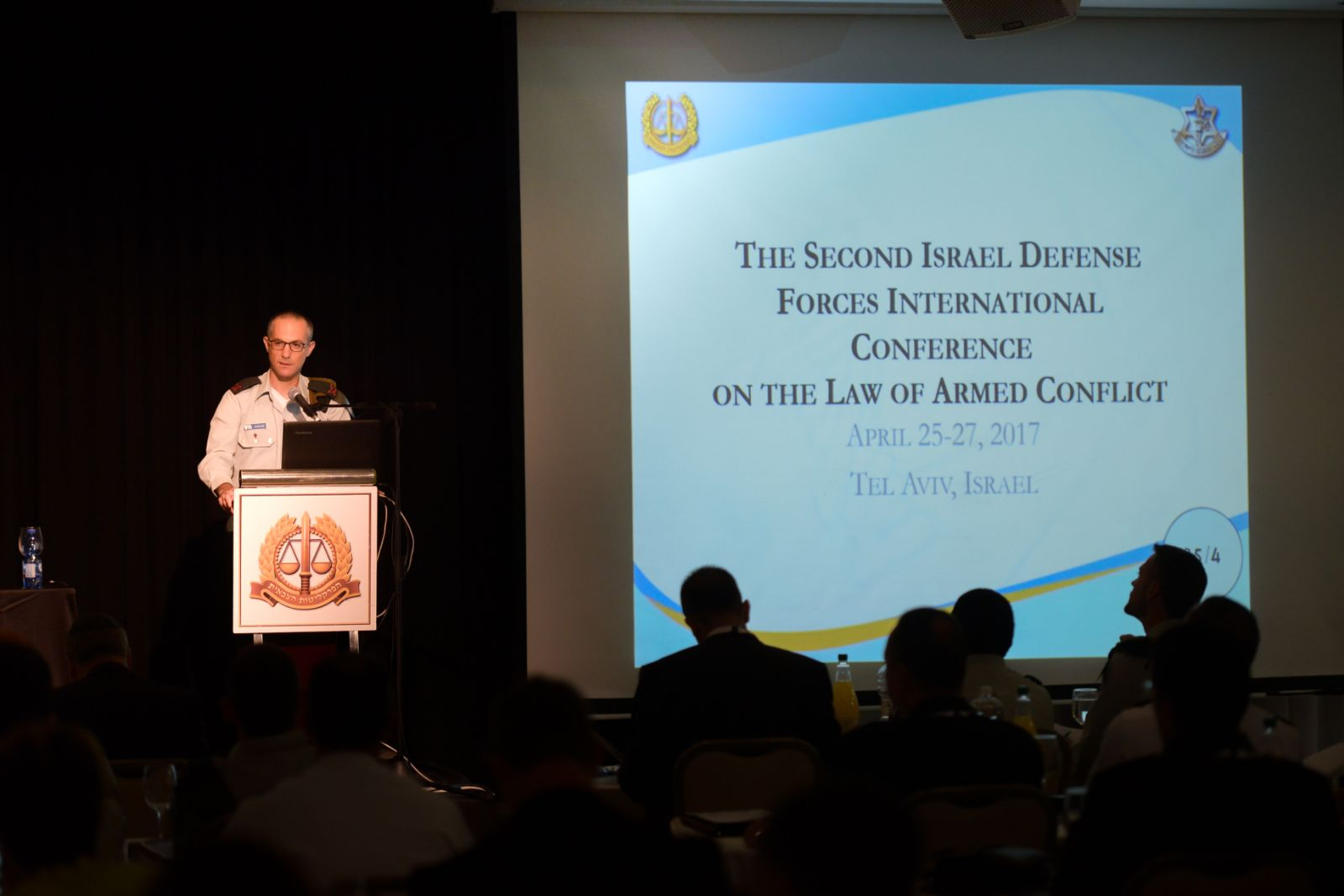 Sharon Afek in The Second Israel Defense Forces International Conference on The Law of Armed Conflict.